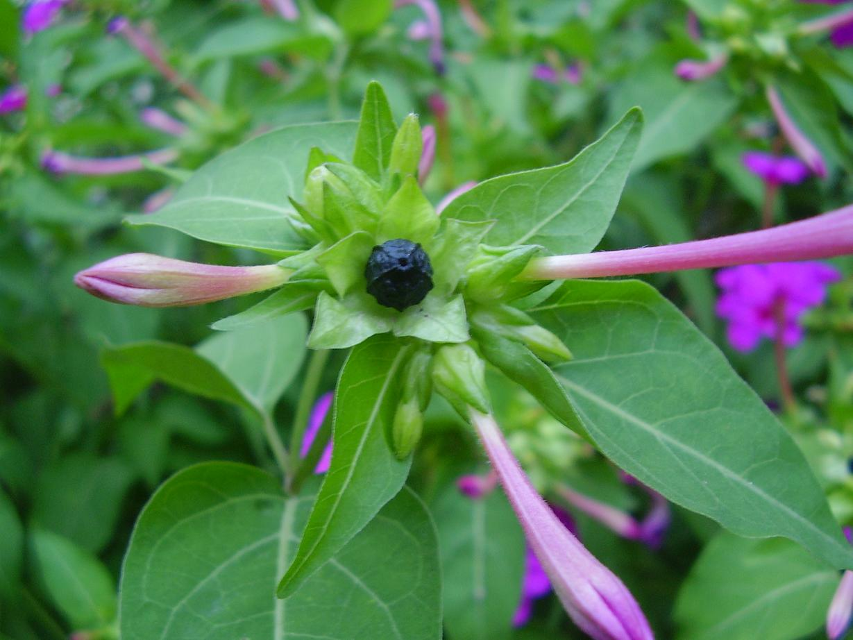 Fruit (NOT seed of) jalapa / my own creation